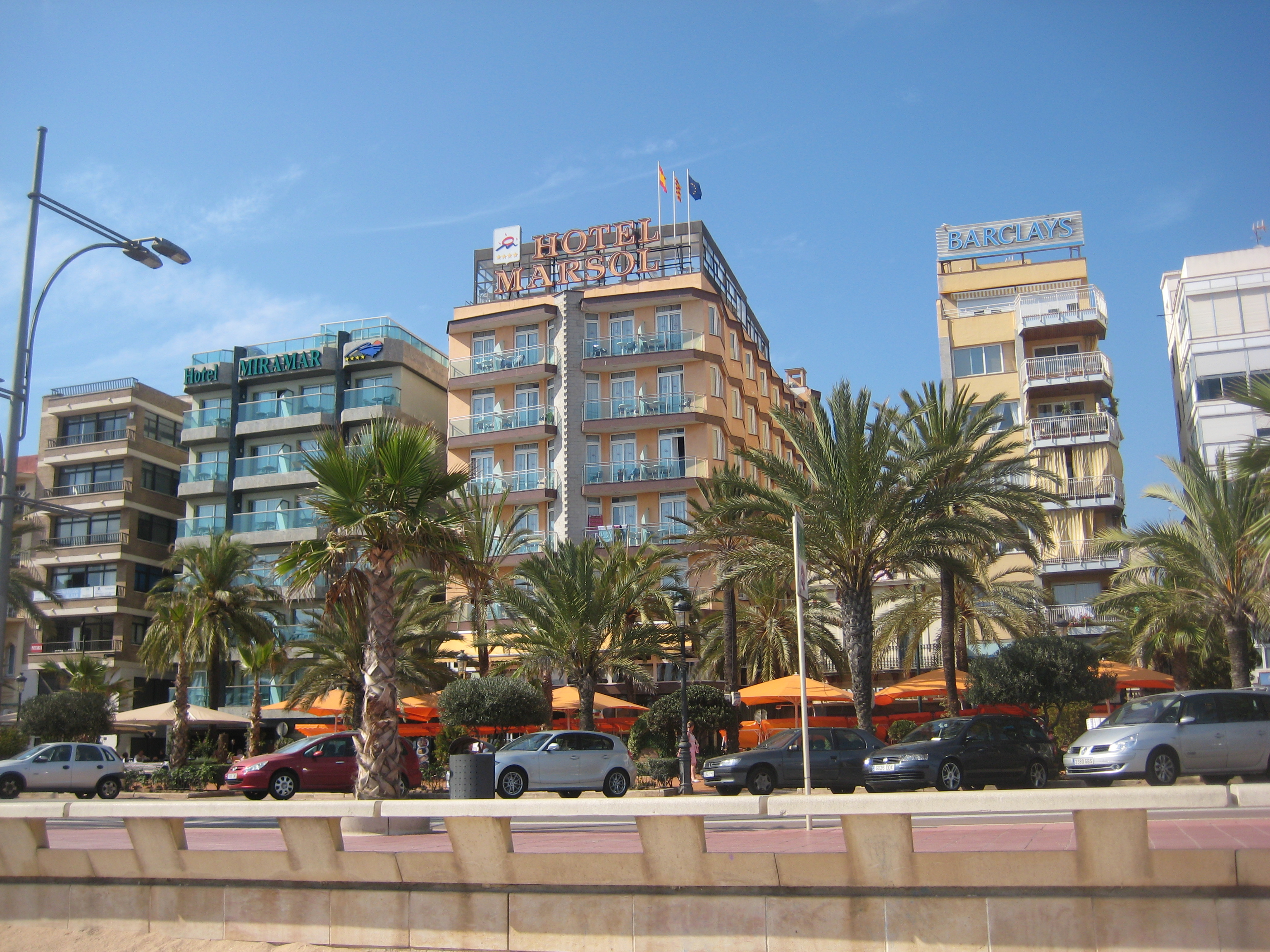 Hotel Marsol 4*, Lloret de Mar, Costa Brava, Spain.